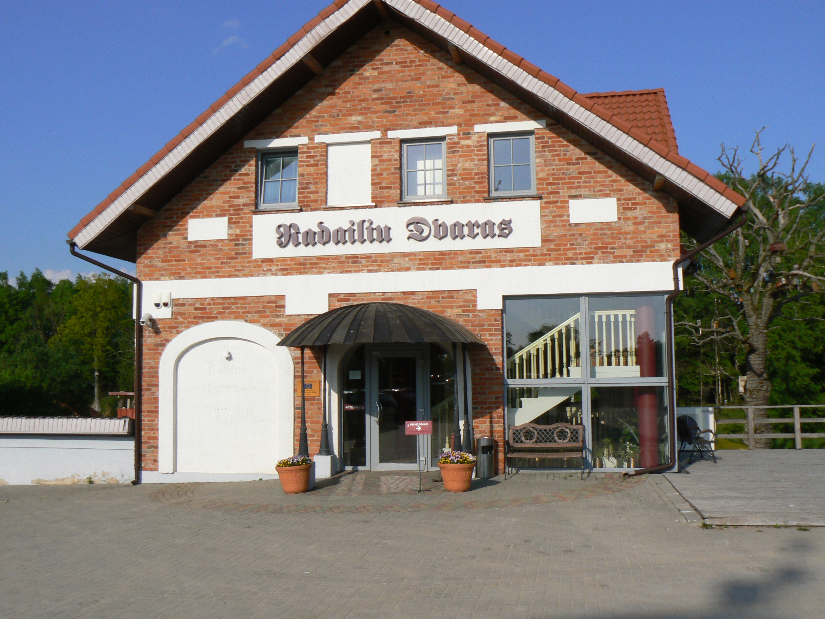 Manor Radailių Dvaras